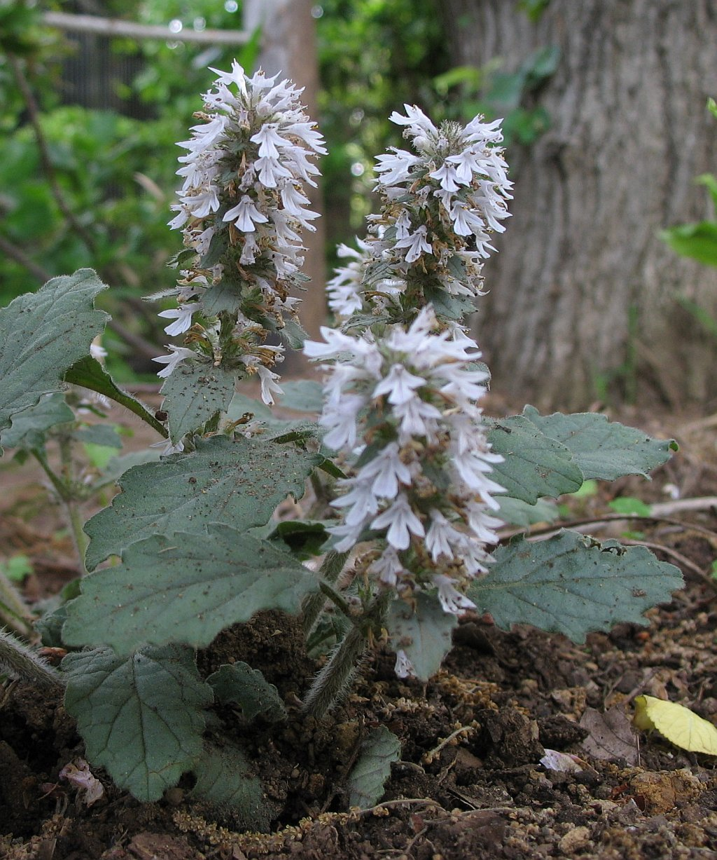 Photograph of Ajuga nipponensis, taken in Machida city, Tokyo, Japan. (cropped and resized)